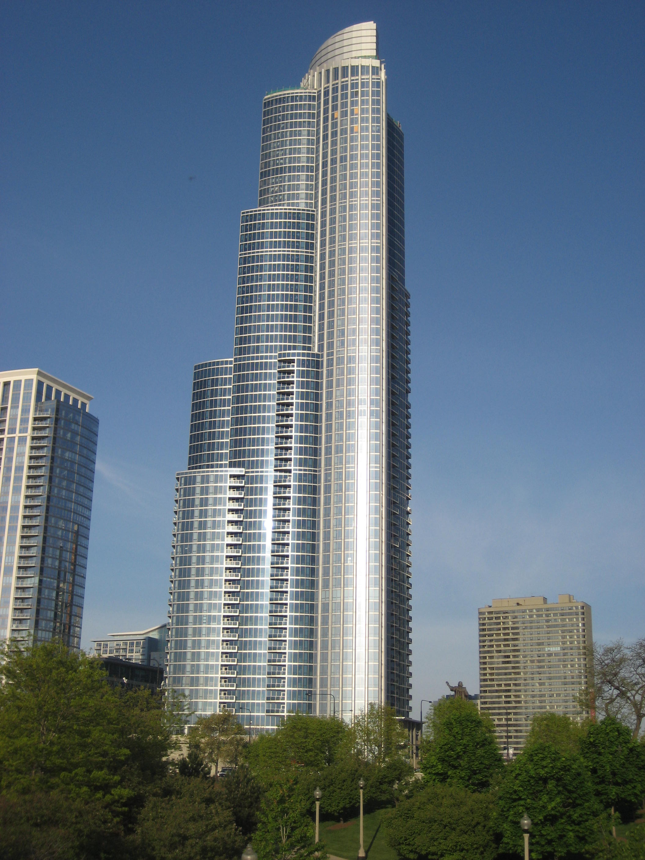 Construction photo of One Museum Park in Chicago